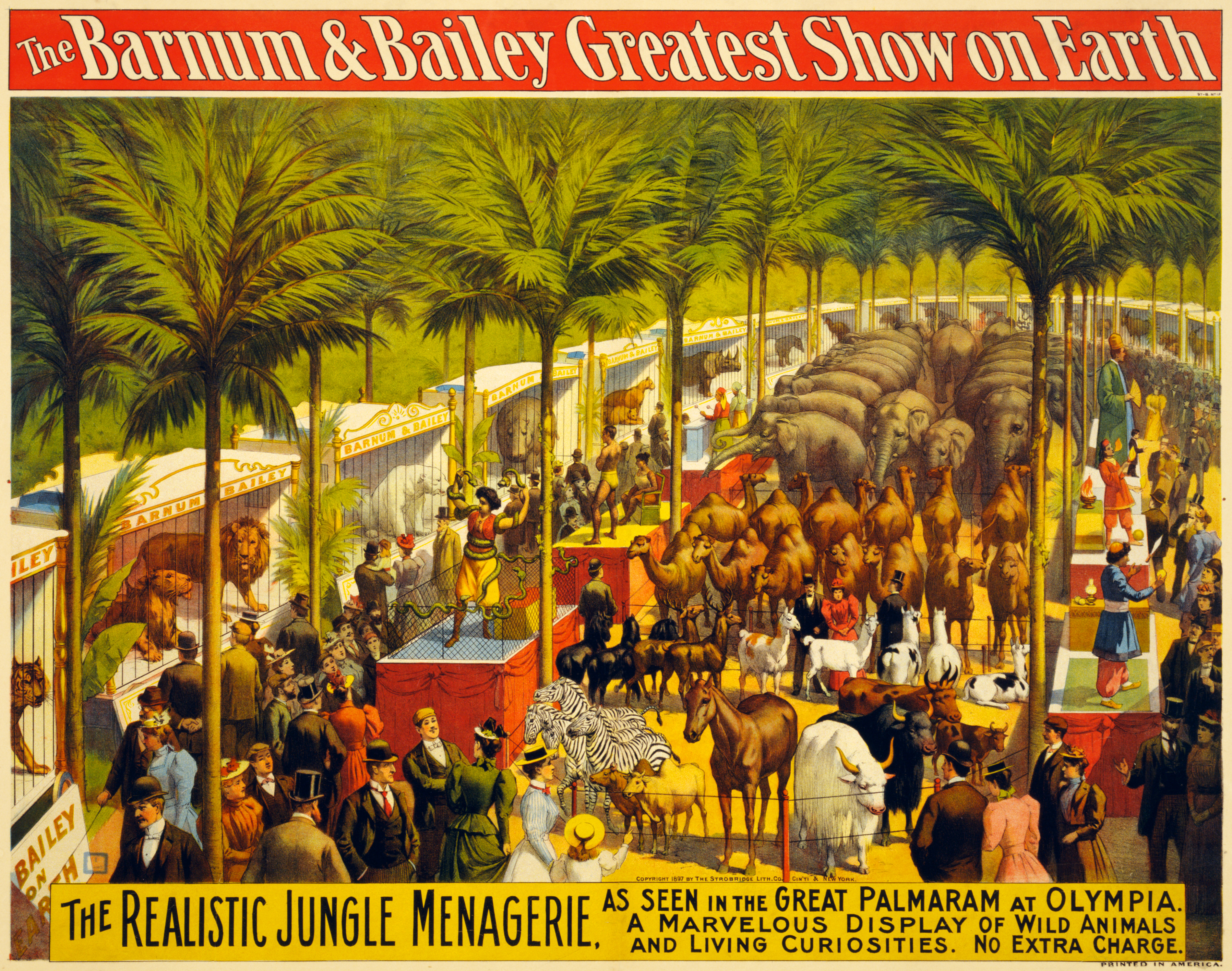 The Barnum & Bailey greatest show on Earth. The realistic jungle menagerie, as seen in the great palmaram at Olympia. A marvelous display of wild animals and living curiosities. No extra charge. Circus poster showing canvas tents and freight trains for Barnum & Bailey Circus by The Strobridge Lithographing Co., Cincinnati & New York, copyrighted 1897. From the Performing Arts Poster Collection at the Library of Congress More Barnum & Bailey posters | More performing arts posters [PD] This picture is in the public domain.